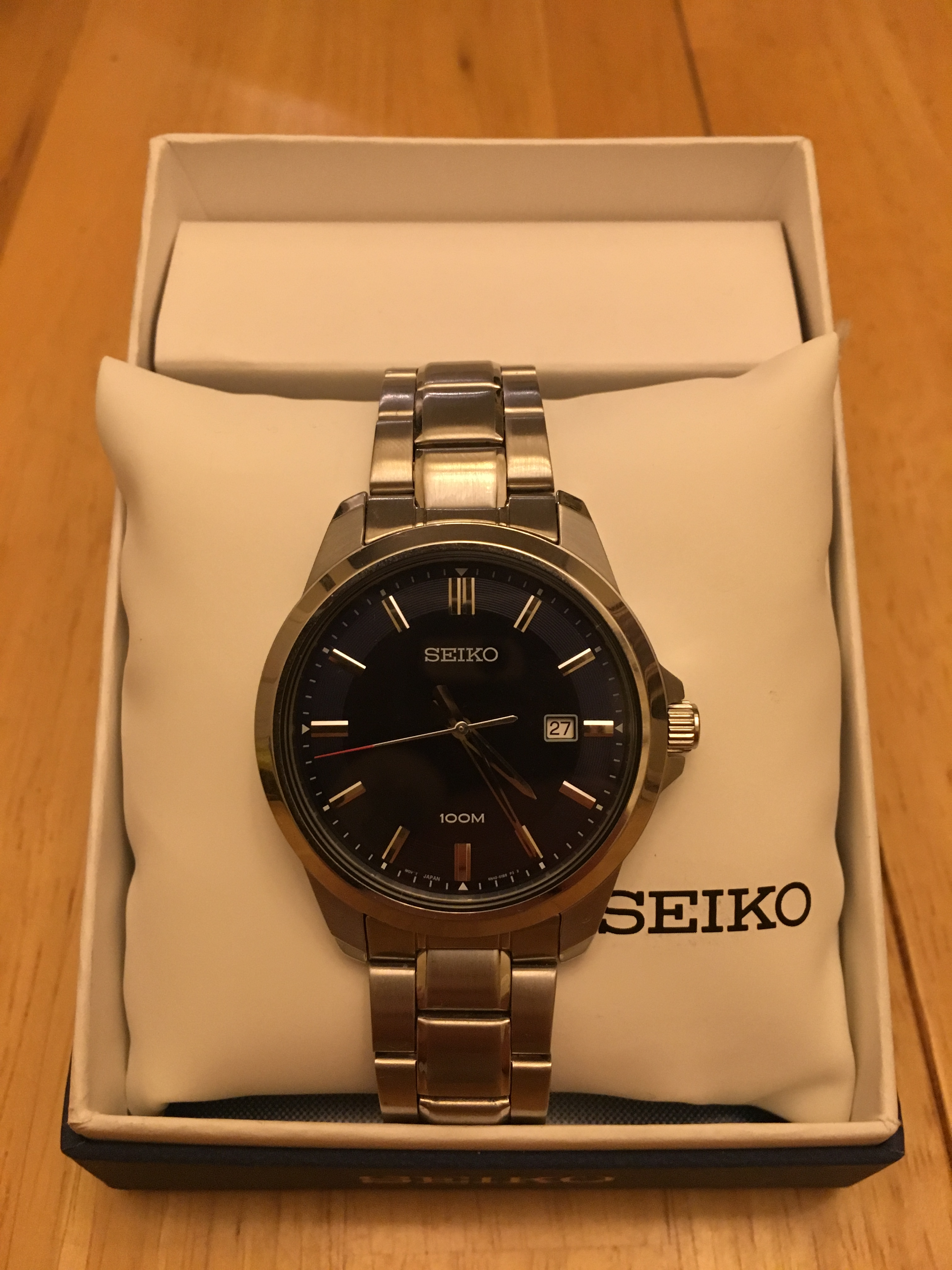 Stainless steel Seiko wristwatch with a blue face